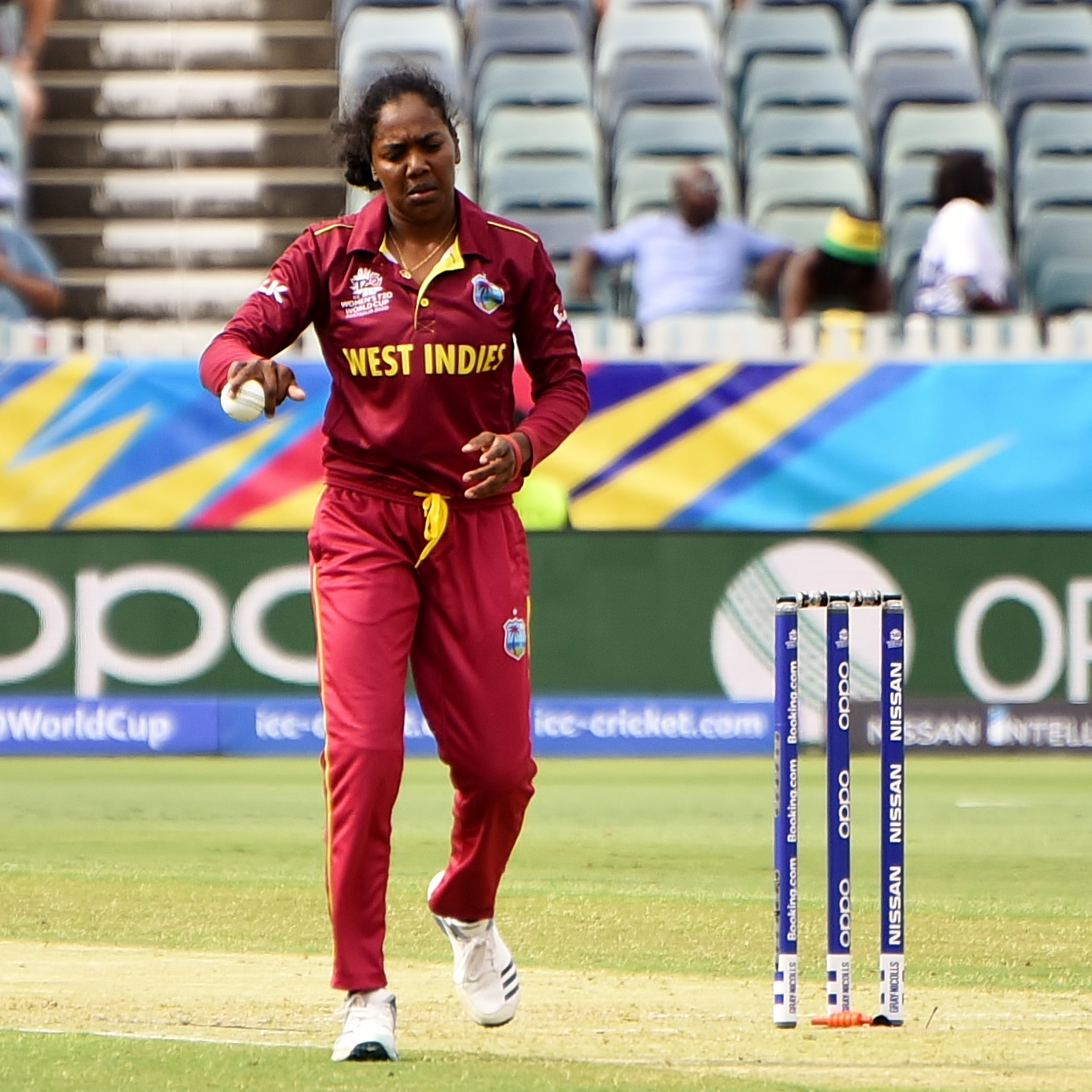 Afy Fletcher walking back to her mark while bowling for the West Indies against Thailand during their 2020 ICC Women's T20 World Cup match at the WACA Ground in Perth, Australia